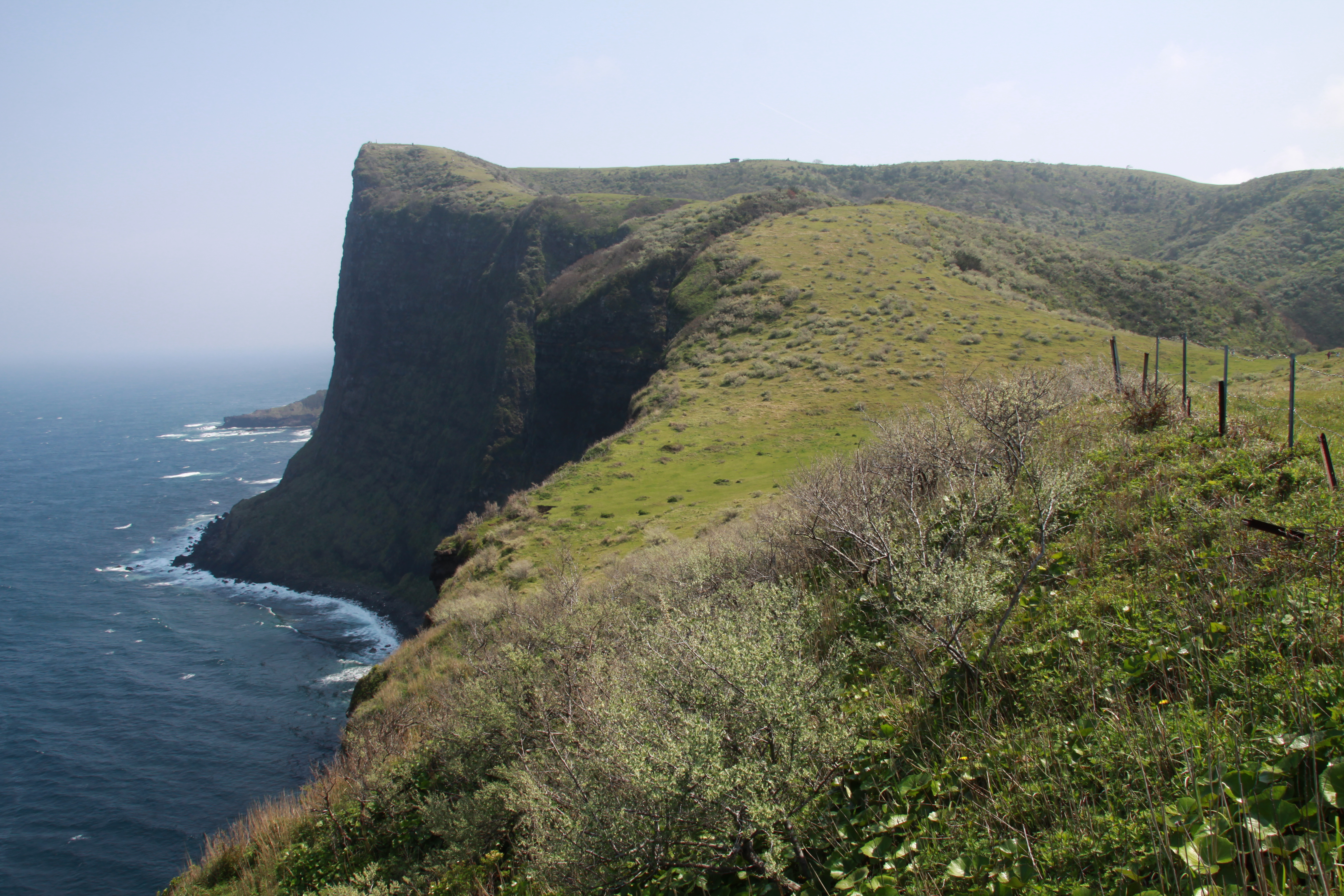 Matengai Cliff at Kuniga coast, Nishinoshima